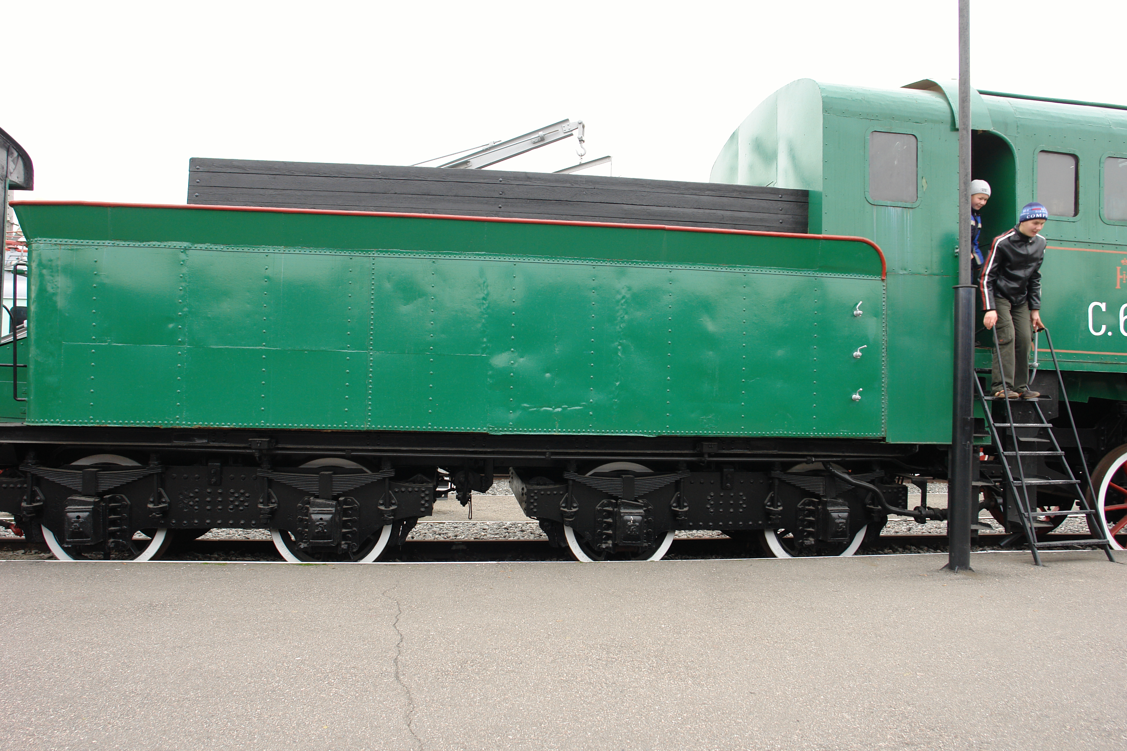 Passenger steam locomotive S.68 Weight in working order:excluding tender76t.including tender120t.Design speed115 kphMaximum power at wheel rim1300 hp The sole survivor of this class. Withdrawn by the MPS in 1960 and used as a stationary boiler at a Moscow factory which made concrete products. , An unprecedentedly complex restoration effort was undertaken at the October Railways Khovrino locomotive depot (Moscow) in 1982-3. ^ It was initially restored as S-245